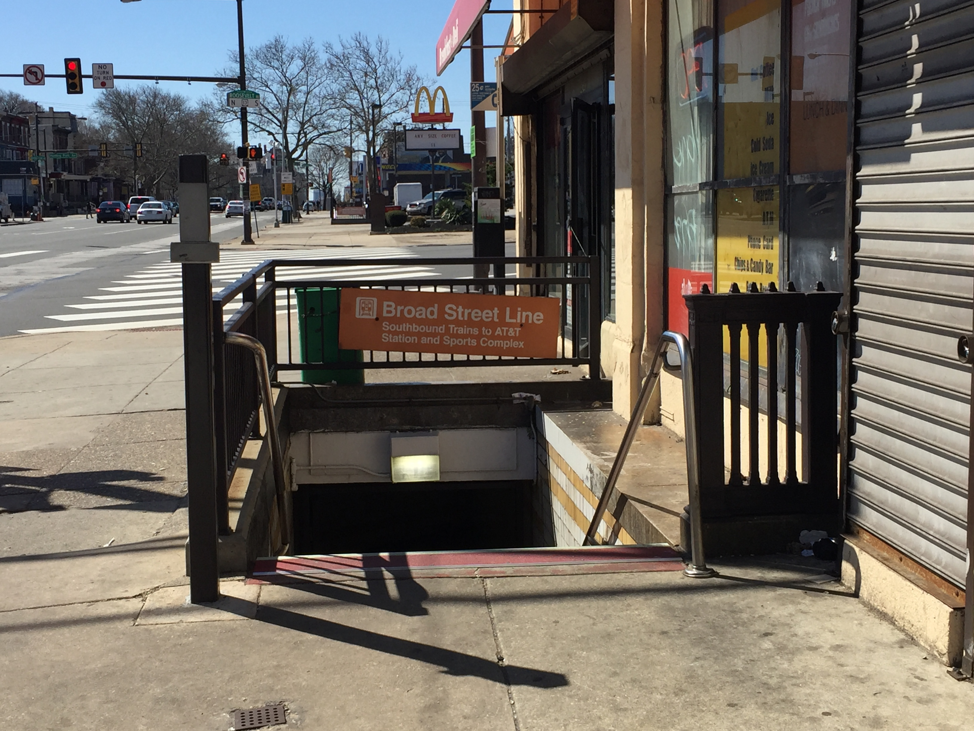 Another entrance